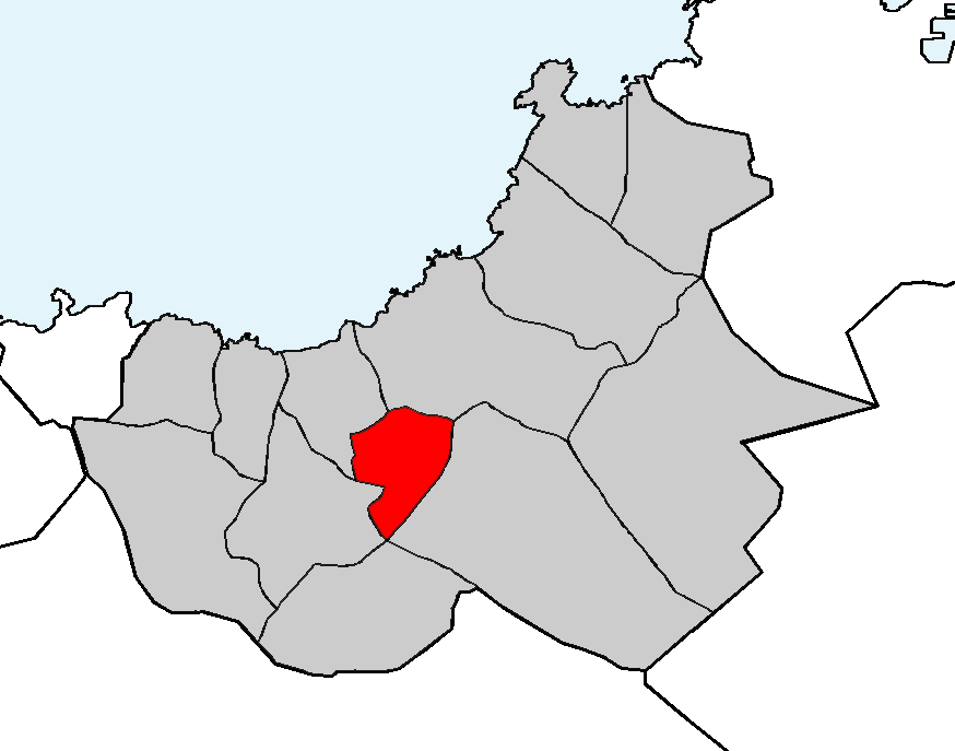 Location of the parish of Lañas in the municipality of Arteixo (Galicia, Spain)